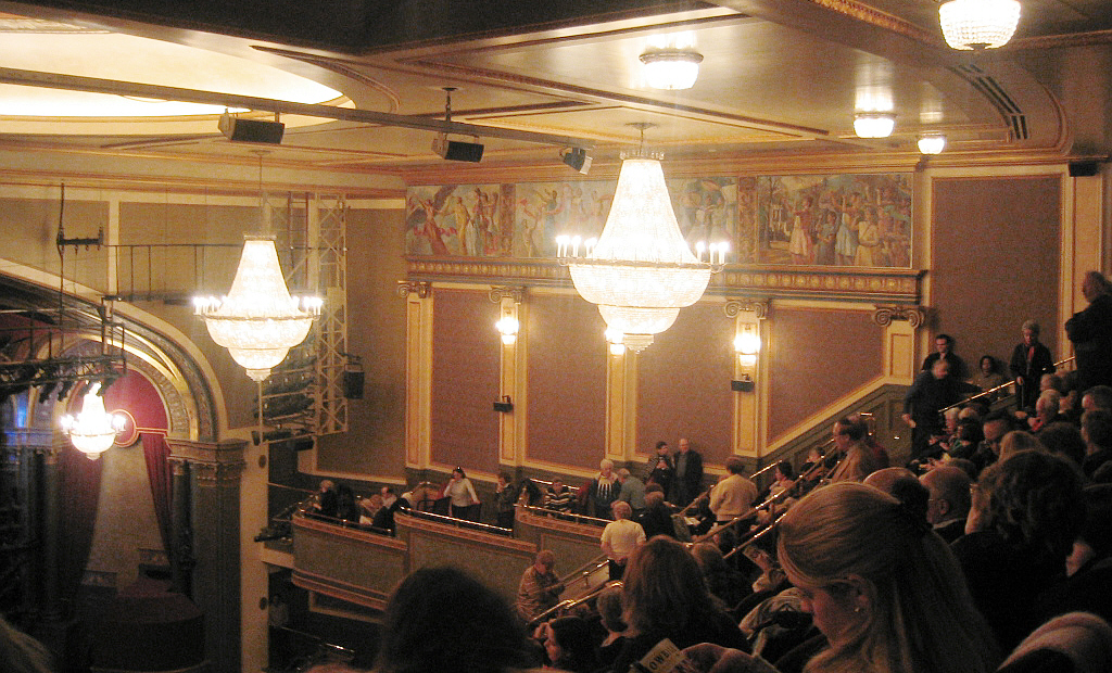 Ford Center for the Performing Arts (now Hilton Theatre); View from the Balcony Manhattan, New York City